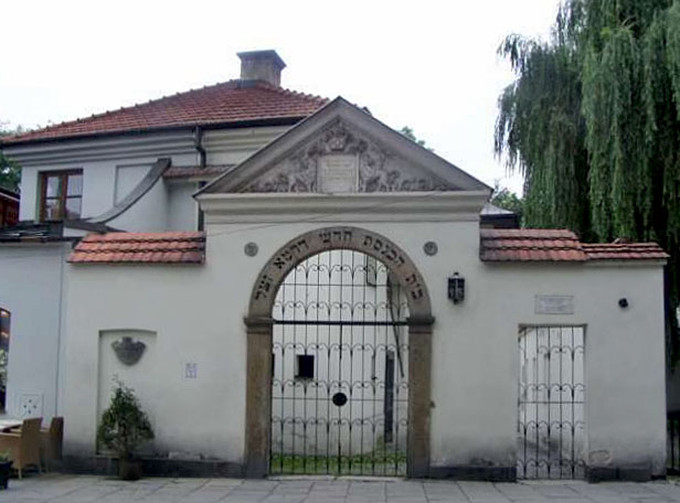 Author/Autor: Slav